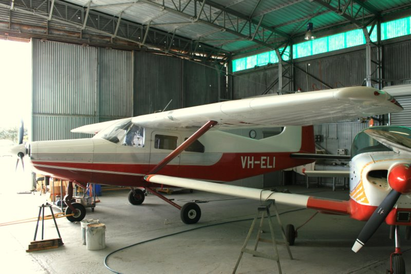 This Aermacchi AL-60 was built in 1961 and has been registered in Australia since 1962. Digital photo of VH-ELI taken by YSSYguy at Devonport Airport in Tasmania, Australia on 24 February 2009 and uploaded for use in the Aermacchi AL-60 article. Image edited using Picasa software. YSSYguy (talk) 04:41, 18 June 2010 (UTC)